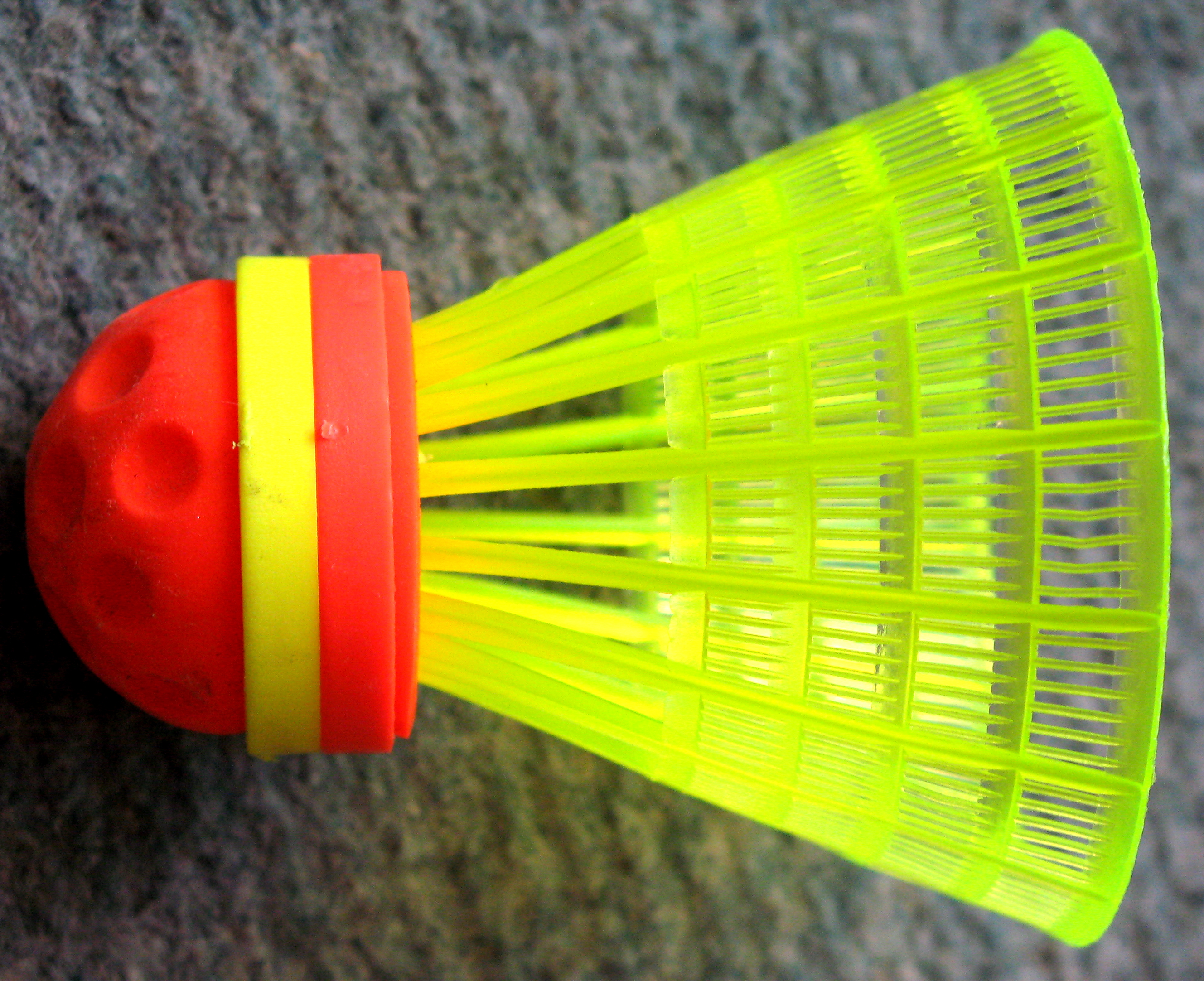 Match Speeder for the Speed Badminton